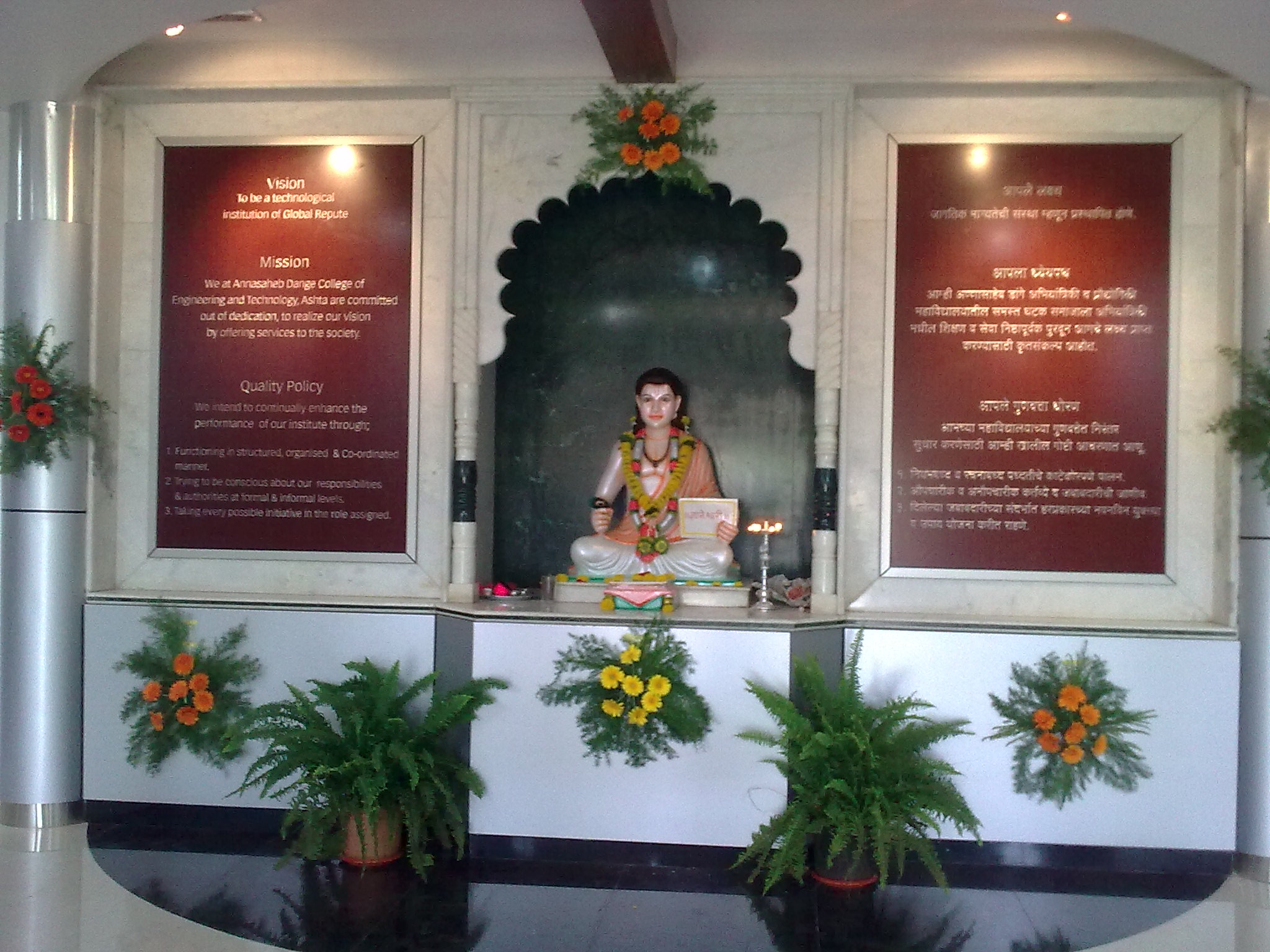 Main entrance